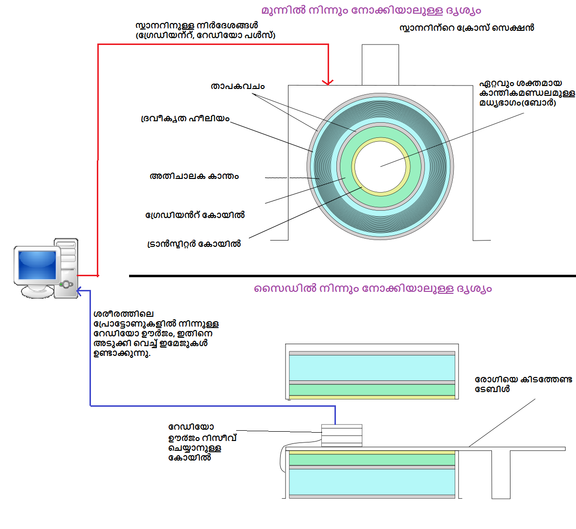 എം.ആർ.ഐ സ്കാനറിന്റെ ഭാഗങ്ങൾ